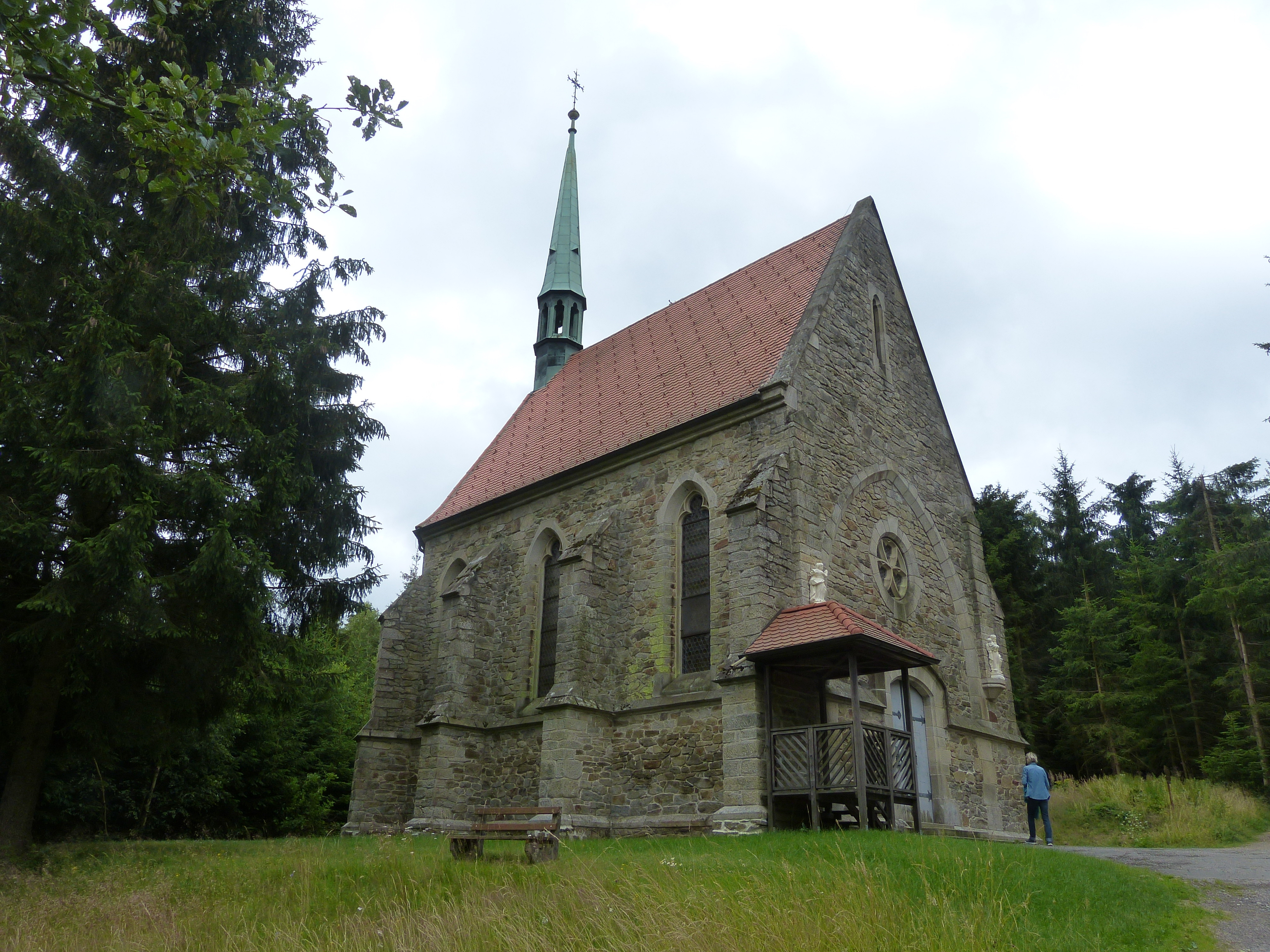 Dietmanns ( Lower Austria ). Chapel ( 1902 ) of the Immaculate Conception.